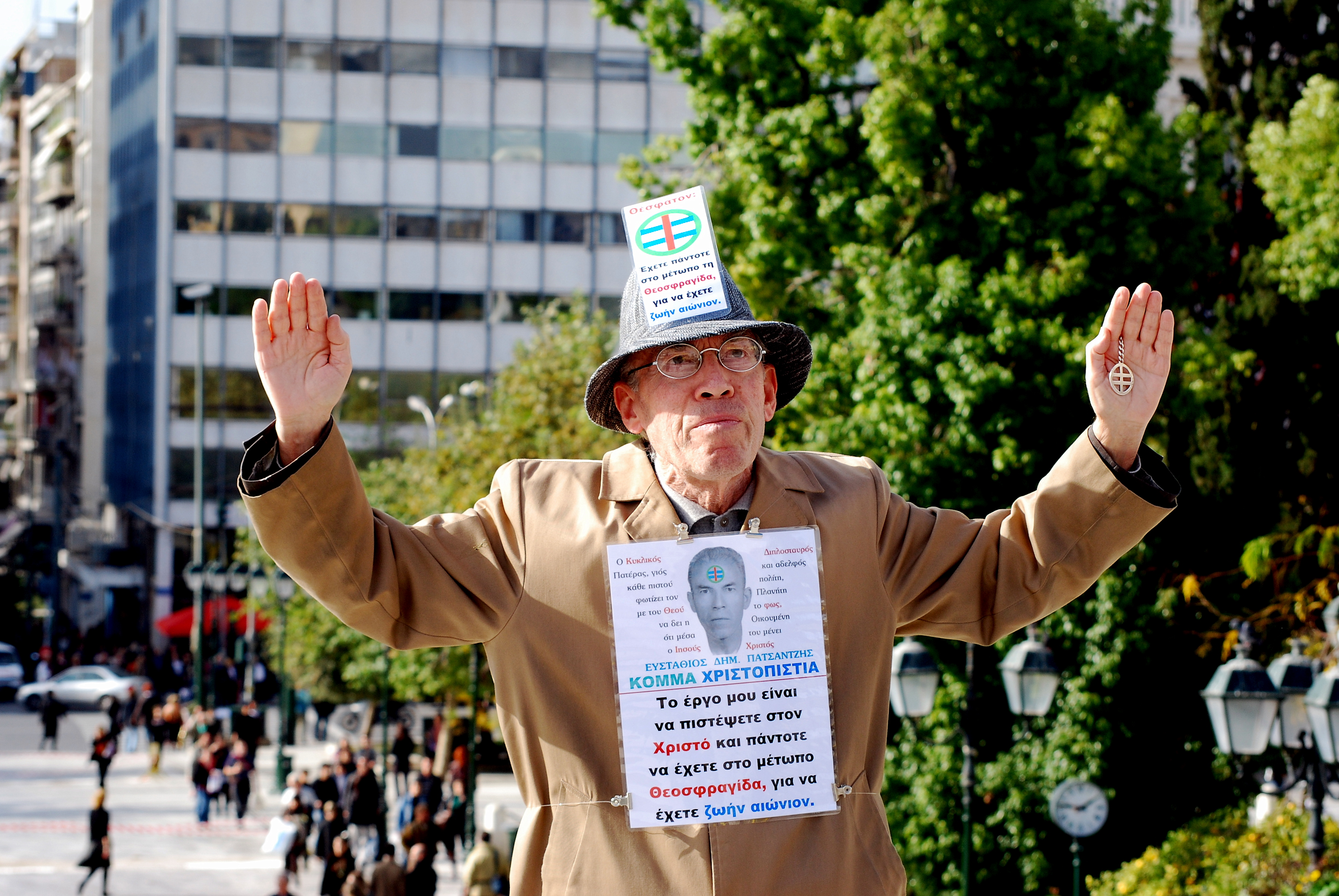 The founder of Christopistia Party Mr. Patsantzis at Syntagma Square, Athens, Greece, 2007 Original title by photographer: "The key to the Parliament (front side)" Text of billboards: On Mr. Patsantzis' forehead: Θέσφατον: Έχετε πάντα στο μέτωπο την θεοσφραγίδα, για να έχετε ζωήν αιώνιον (translation) Decree: Have always on your forehead the god's-seal, so that you have eternal life On Mr. Patsantzis' chest: Το έργο μου είναι να πιστέψετε στον Χριστό και πάντοτε να έχετε στο μέτωπο Θεοσφραγίδα, για να έχετε ζωήν αιώνιον (translation) My work is that you believe in Christ and always have on your forehead god-seal, so that you have eternal life/